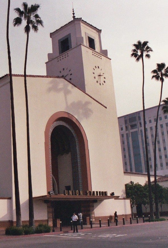 Front entrance of Los Angeles Union Station. Photo by Brion Vibber; taken in August 2003. 35mm SLR, ISO 400 film (Kodak?). Copyright 2003 Brion Vibber, placed under GNU Free Documentation License as part of Wikimedia Commons project. Dual-license under Creative Commons ShareAlike 2.0 available.